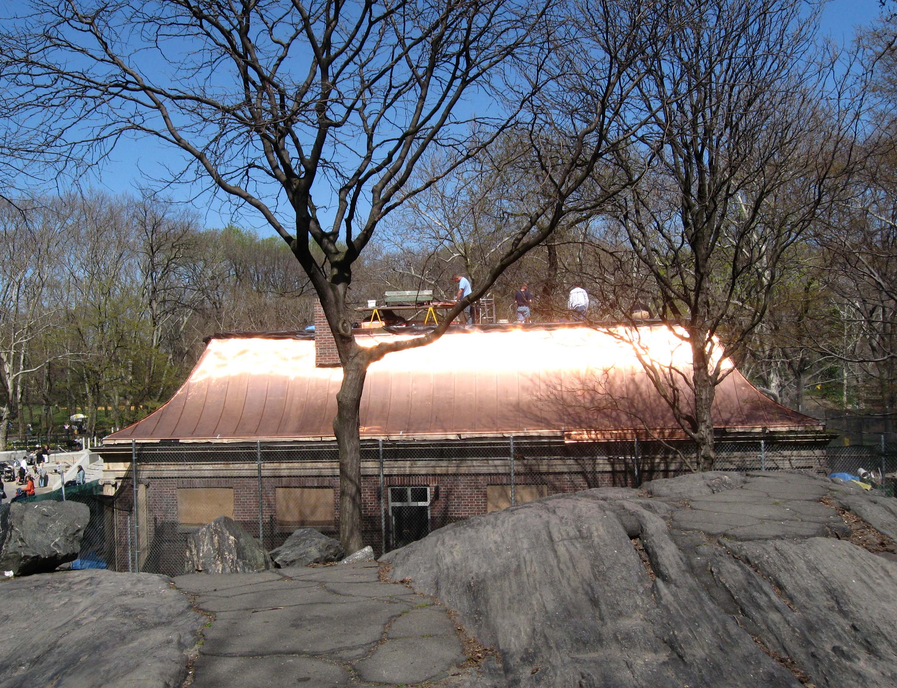 Looking north at roofers installing new copper roofing on Hecksher Park house at the south end of Central Park on a sunny afternoon.